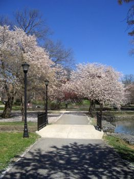 The Pond area in bloom.